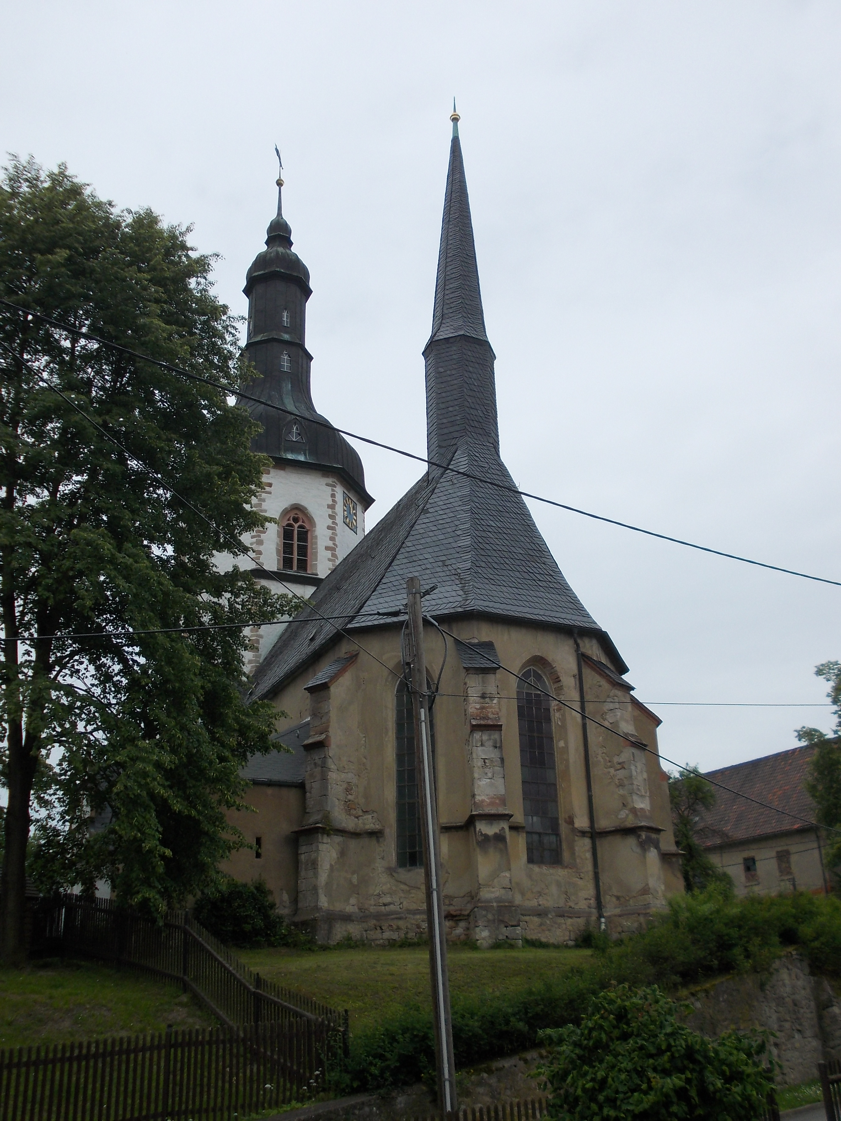 St. Lawrence and St. Catherine Church in Monstab (district of Altenburger land, Thuringia)